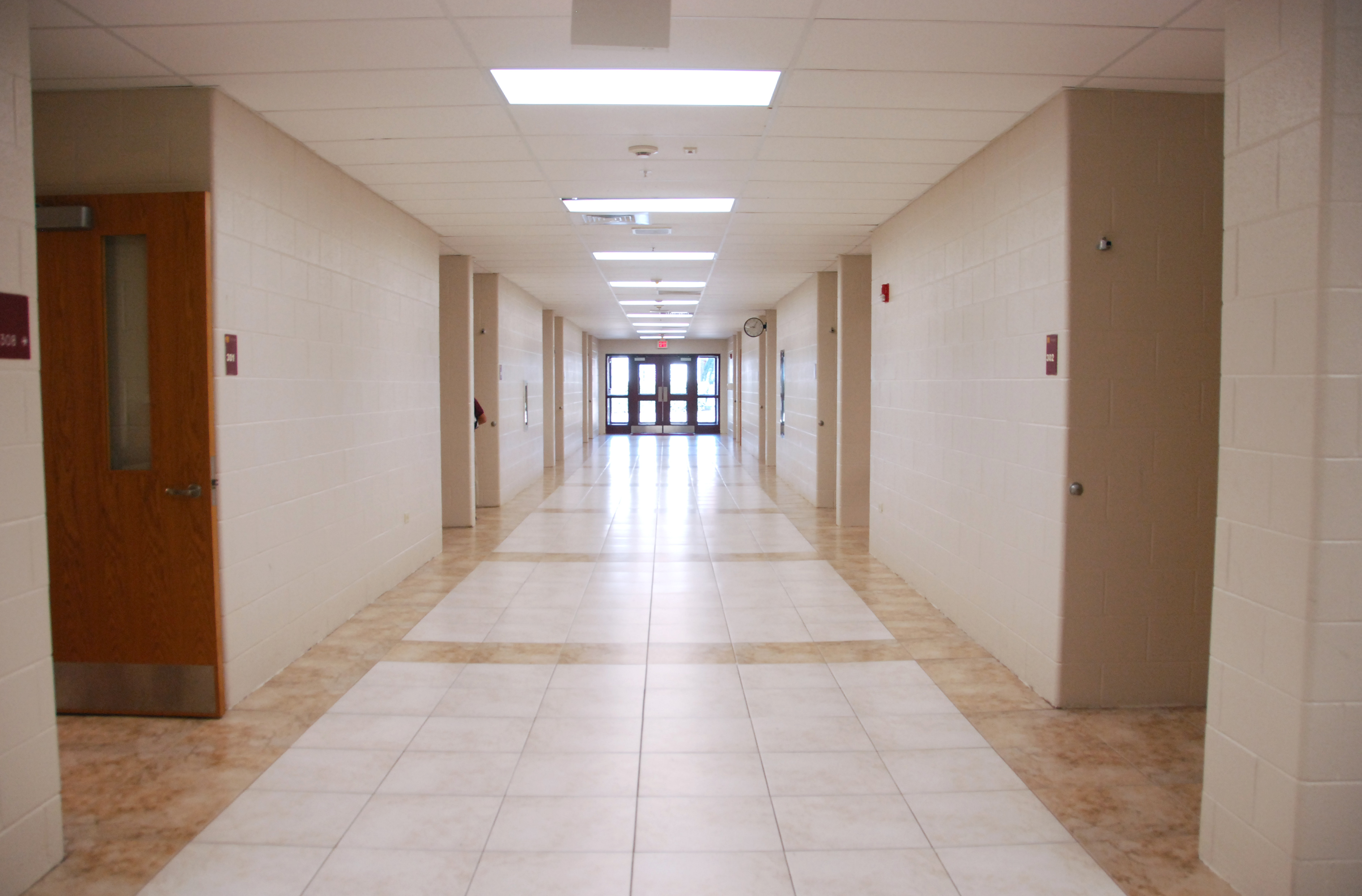 Inside of 300 corridor addition, Montini Catholic High School, Lombard, IL